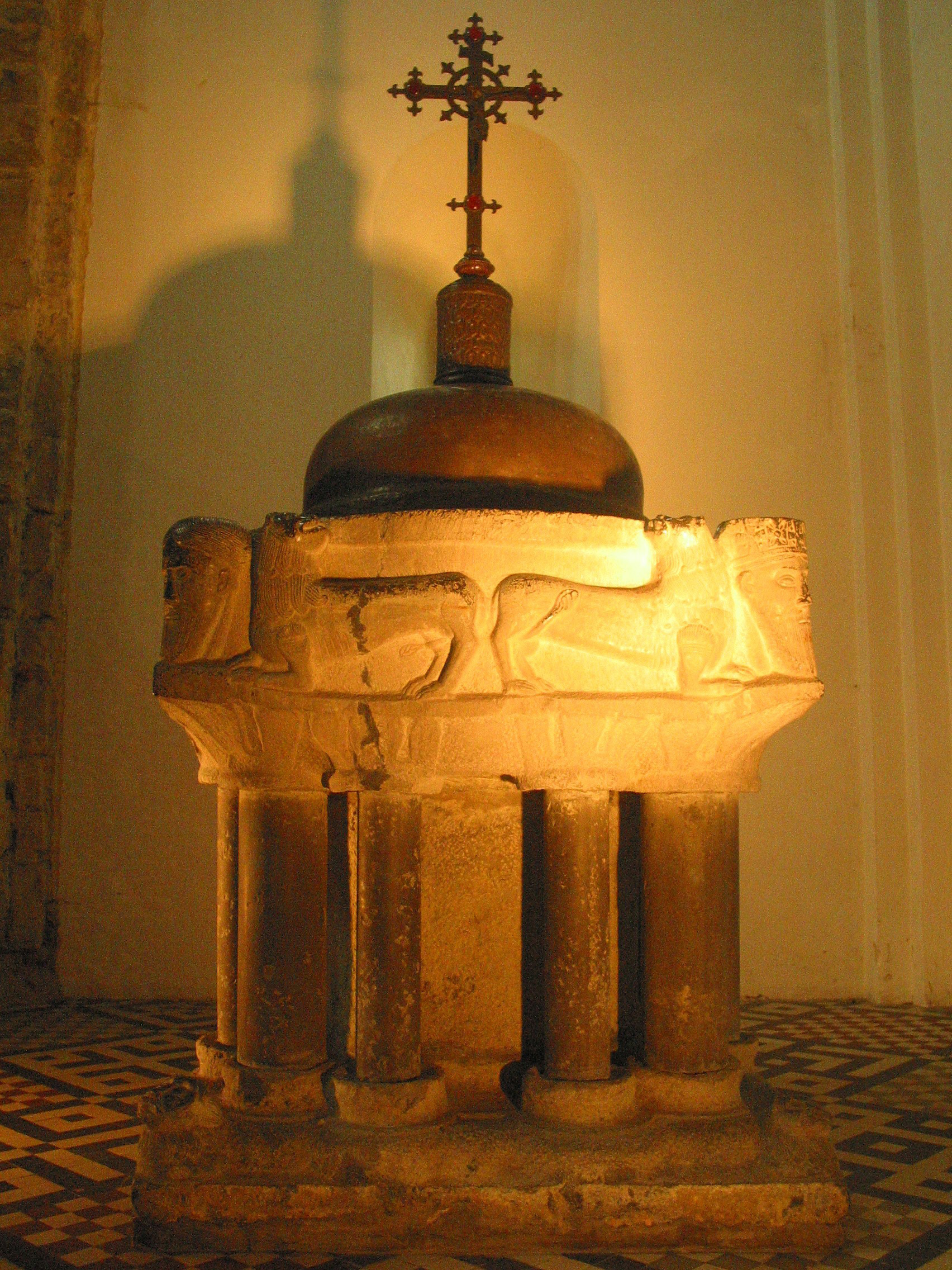 Saint-Séverin (Belgium), baptismal font (circa 1170) of the Church of Saints Peter and Paul (First half of the twelfth century).